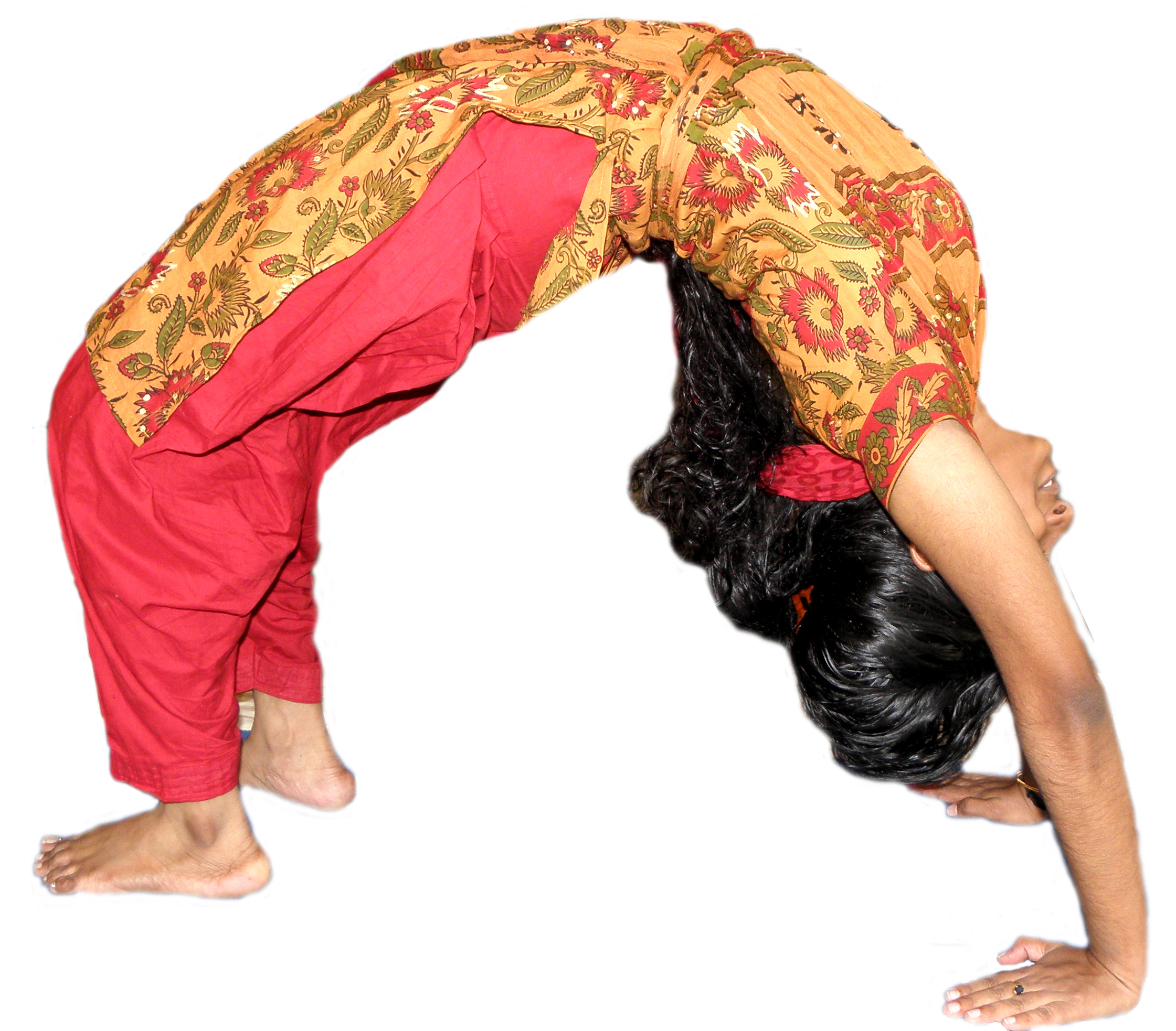 Wheel Pose